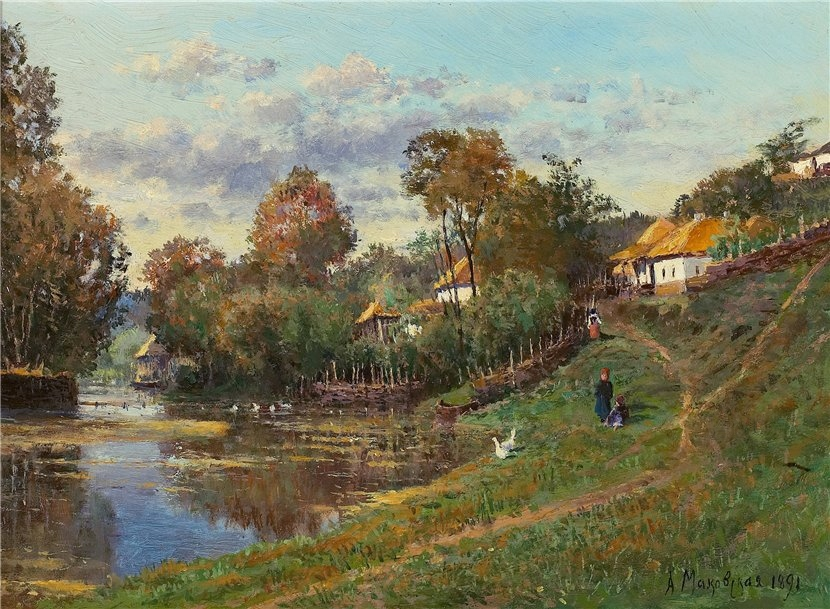 View from Malorussia (Little Russia)